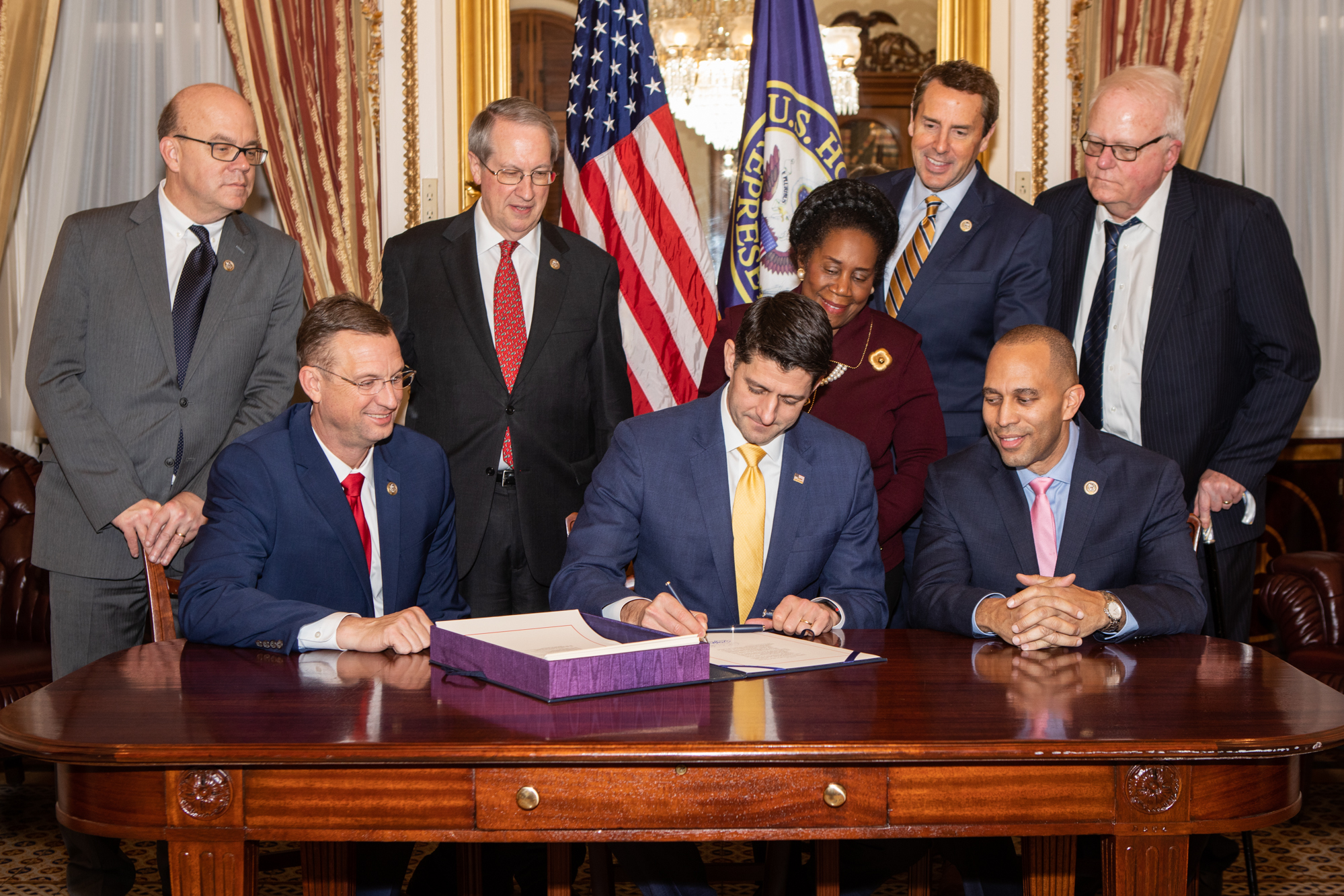 Front Row: Rep. Doug Collins (R-GA), Speaker Ryan (R-WI), Rep. Hakeem Jeffries (D-NY) Back Row: Rep. Jim McGovern (D-MA), Chairman Bob Goodlatte (R-VA), Rep. Sheila Jackson-Lee (D-TX), Rep. Mark Walker (R-NC), Rep. Jim Sensenbrenner (R-WI)